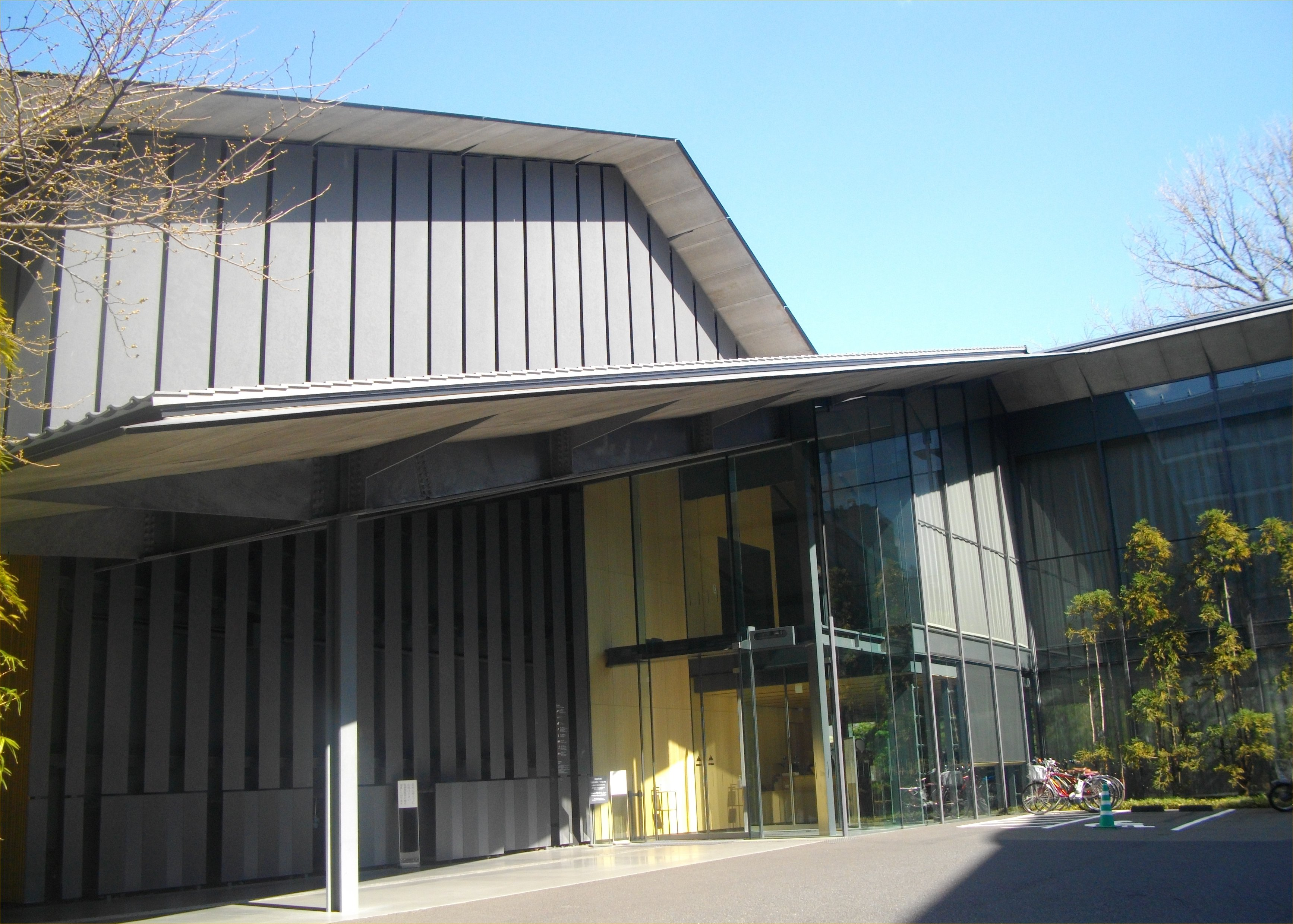 A photo of the entrance of Nezu Museum,Minami-aoyama,Minato-ku,Tokyo,Japan.